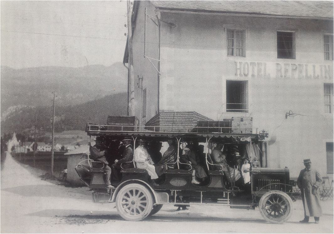 A bus (Berliet type CAB) designed for 22 passengers makes a stop in front of an hotel. There is no door or window. The two front rows are simple. The four rows back are face to face. All seats are occupied by men. The driver went down. The bus stays before an hostel. We can see “HOTEL REPELLIN”. On left hand a road heads perpendicular to the vehicle, to one city. We guess homes and a church. In the back are mountains.